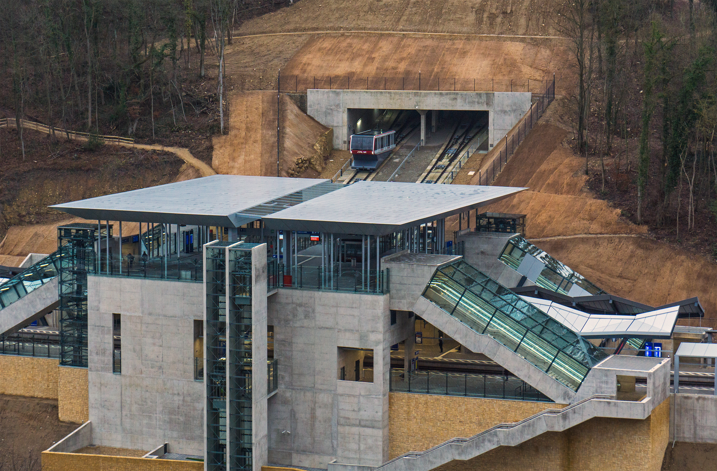 Kirchberg-Pfaffenthal train station and base station of the funicular